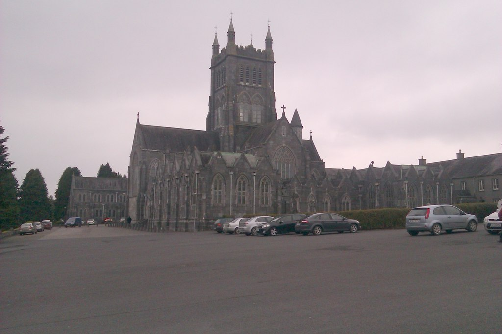 Mount Melleray Abbey